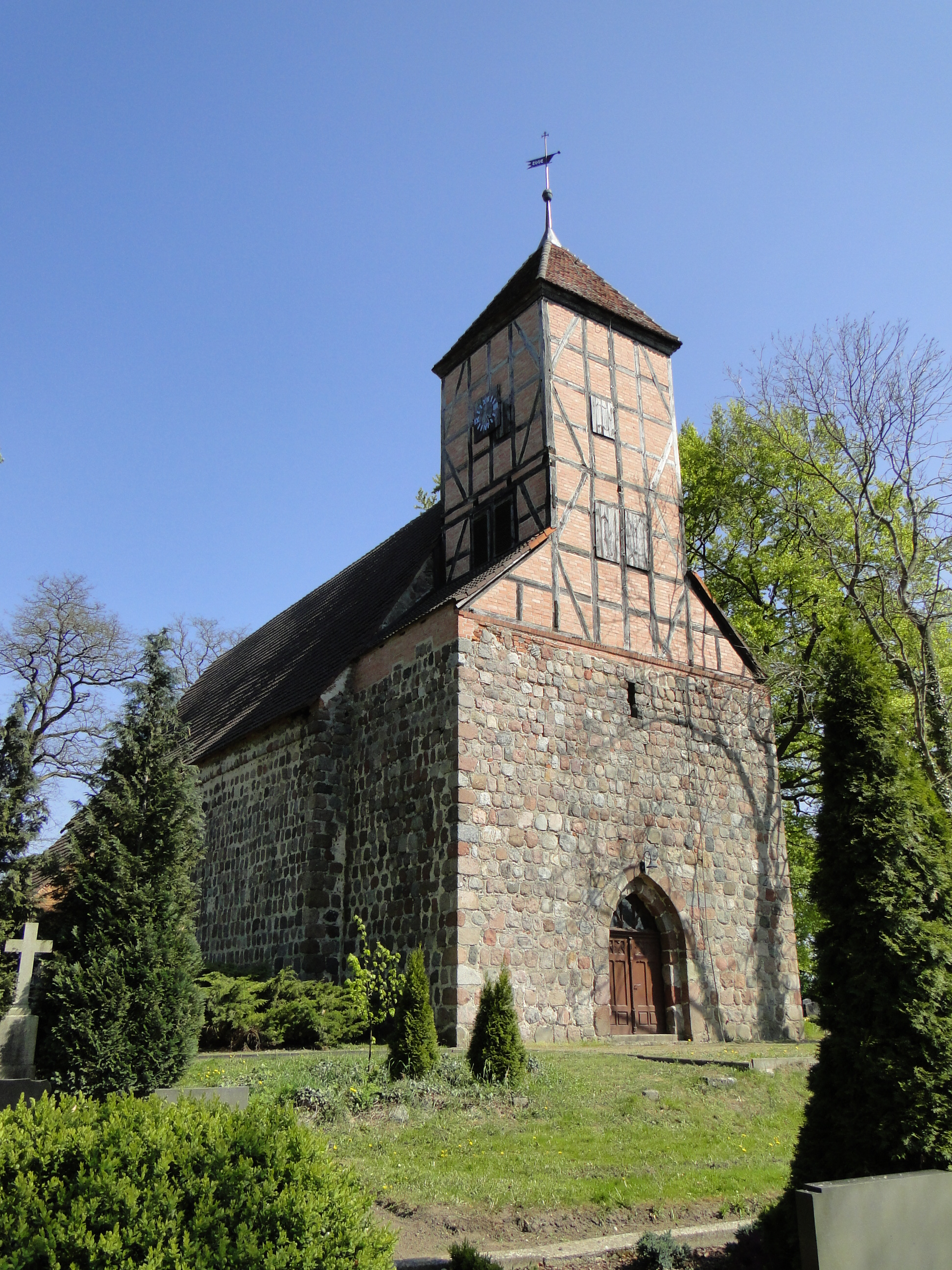 Kirche in Schönbeck, district Mecklenburgische Seenplatte, Mecklenburg-Vorpommern, Germany